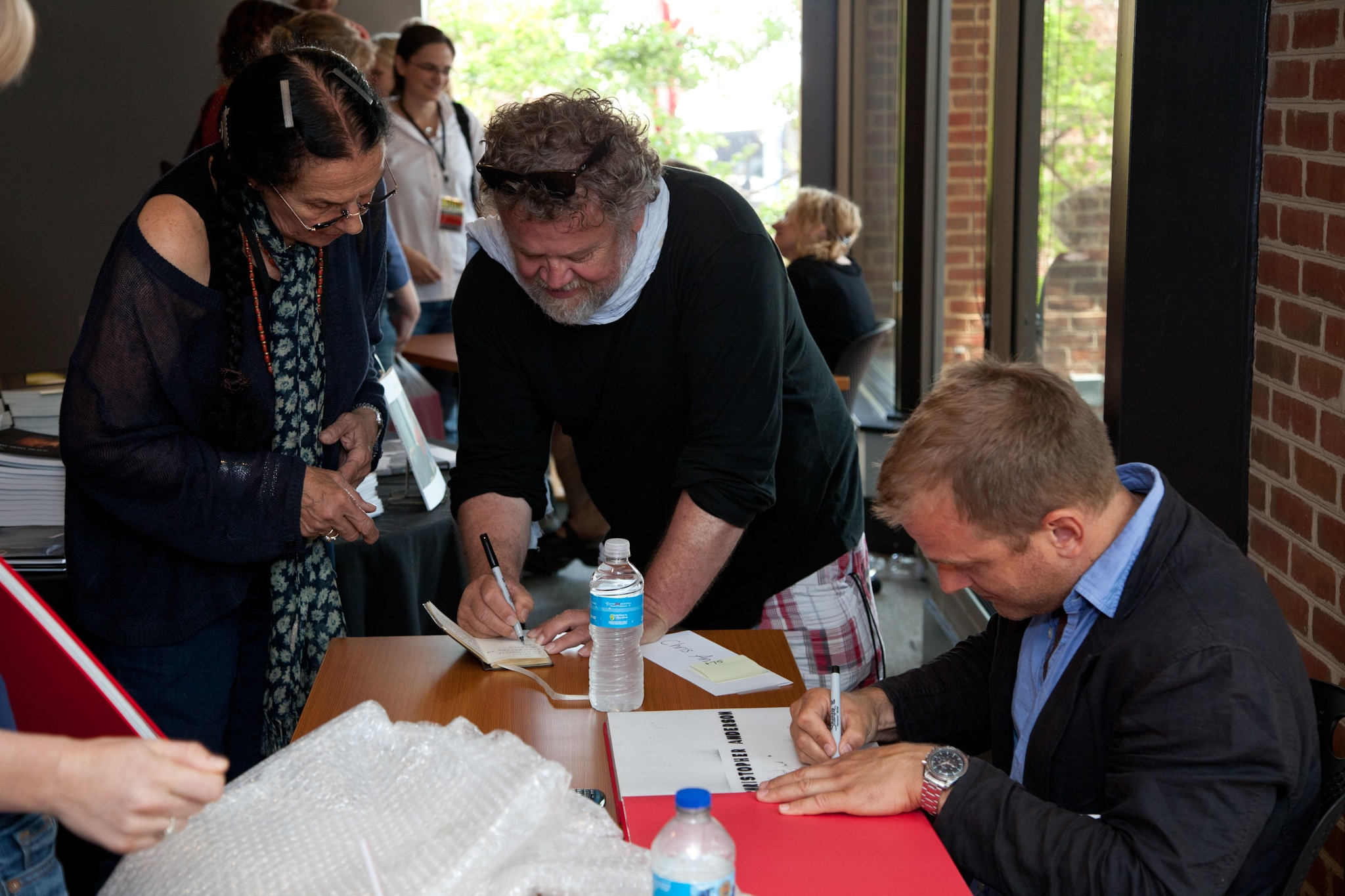 Trivecta of photographic greatness. Mary Ellen Mark and Antonin Kratochvil, two photographers